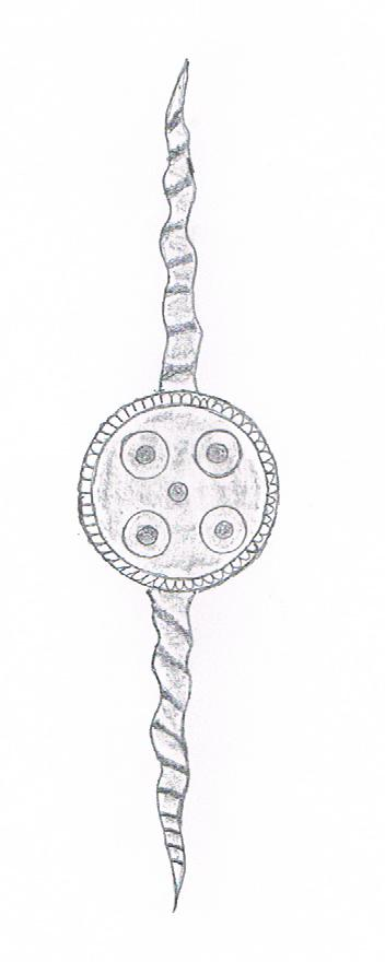 Madu